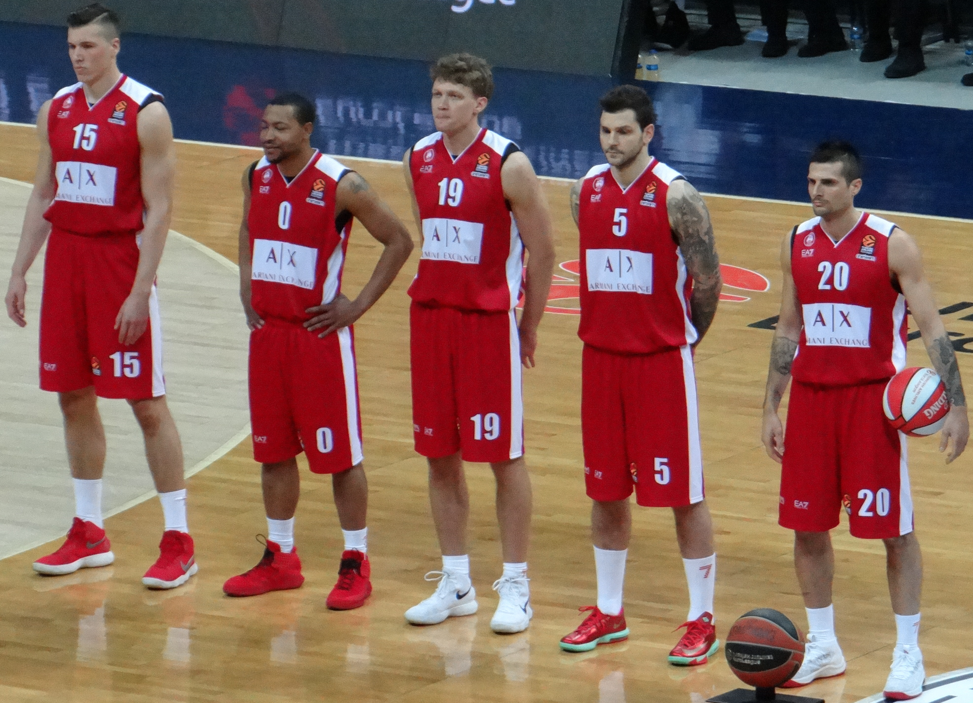 Fenerbahçe vs Olimpia Milan 20180222